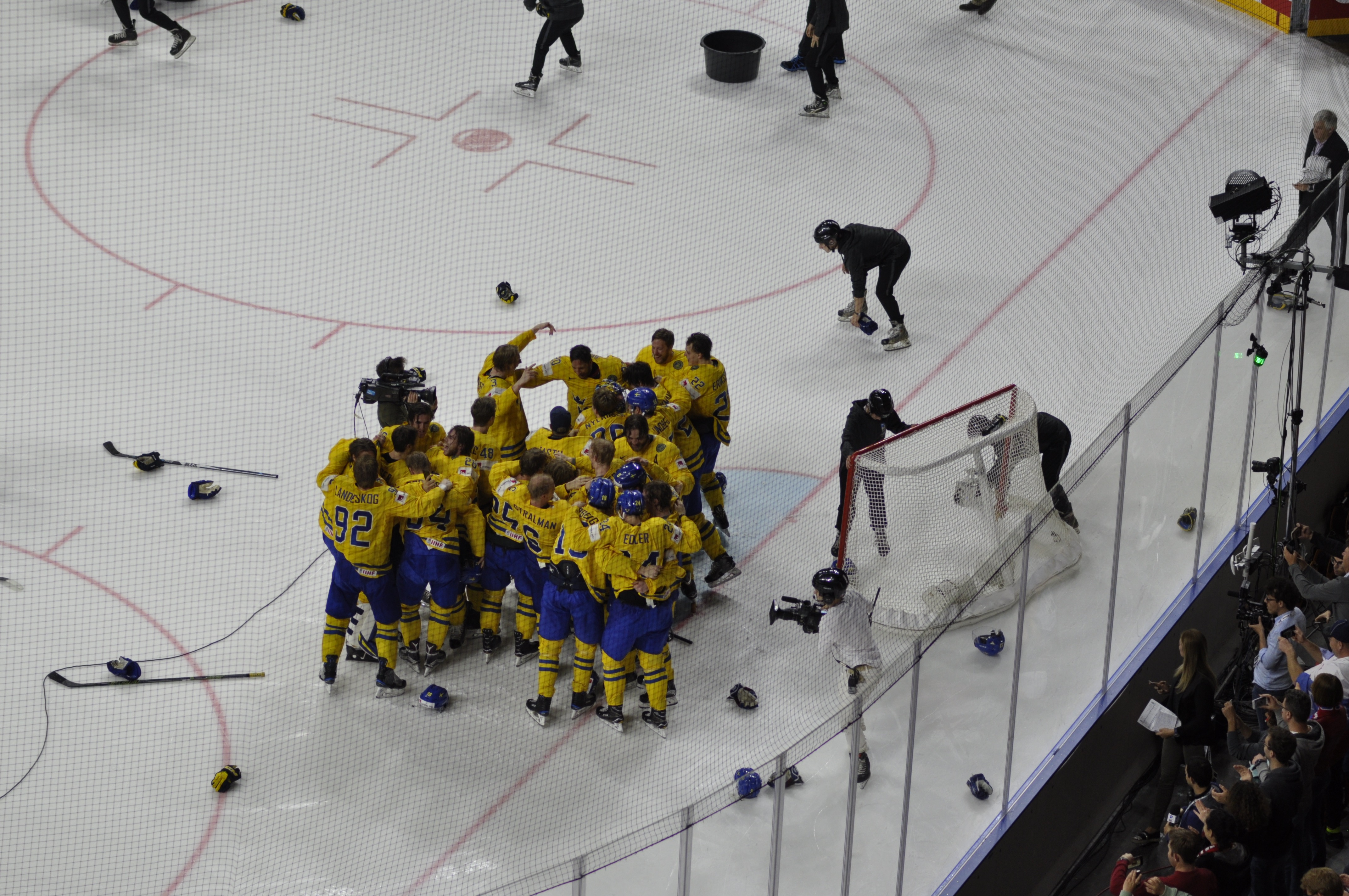 Ice hockey World Championship 2017 in Cologne 19.5 - 22.5.2017 Foto Mats Adamczak